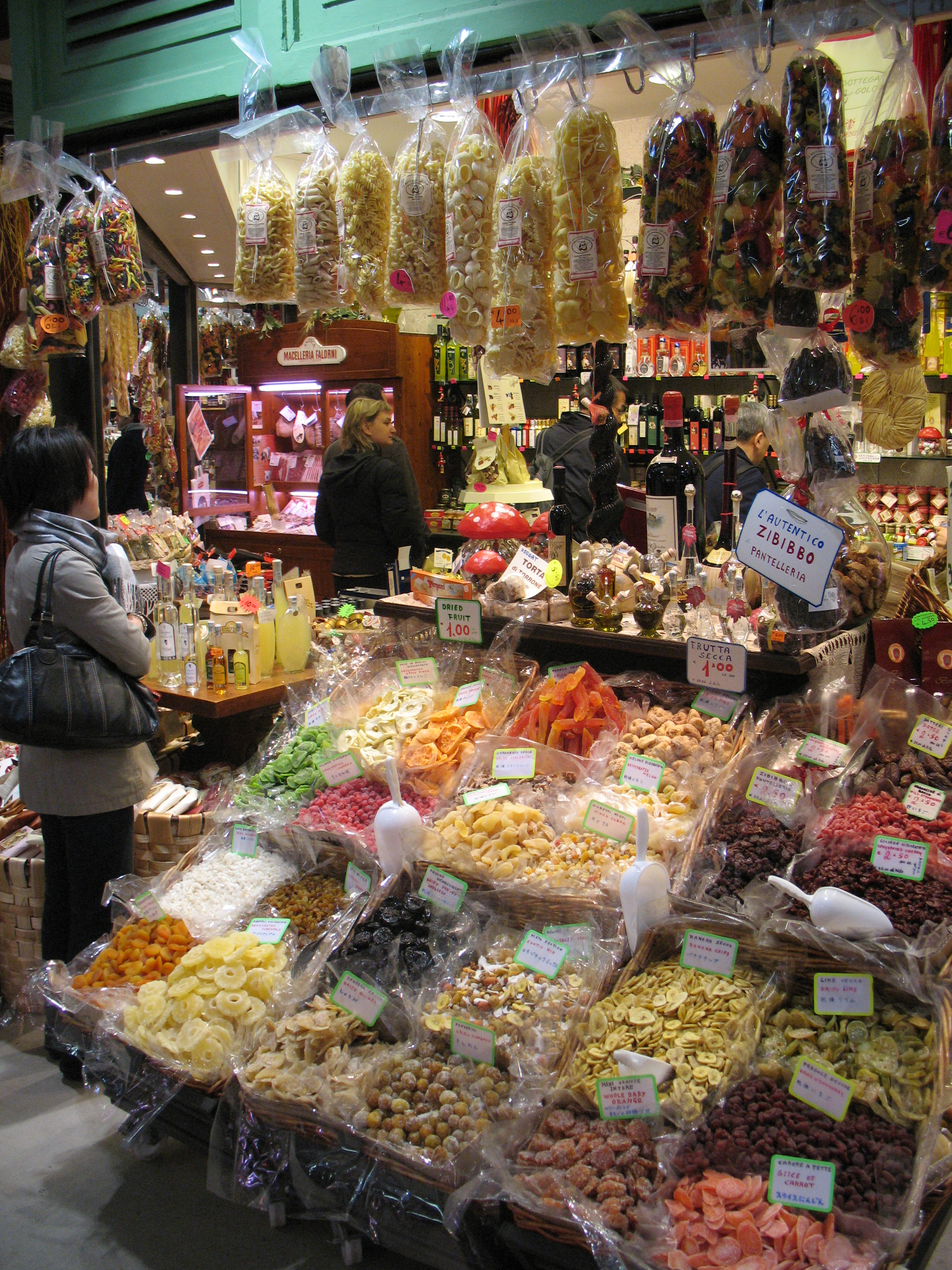 In the central market of Florence I found this booth of pasta. Yum! What a dream!Pasta, Pasta, Pasta!